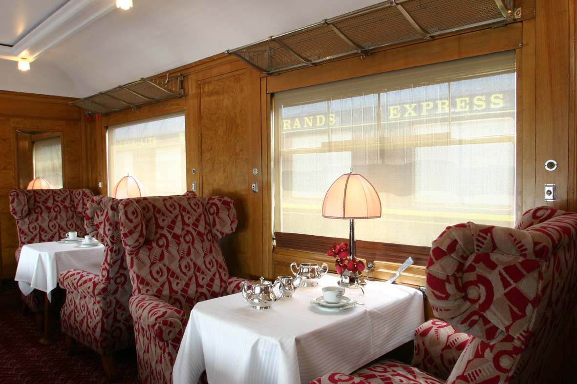 The 'secret' Orient Express formed of genuine heritage cars is based in Paris and is used exclusively by SNCF French railways for its supported charites and for its own corporate use. The Pullman Orient Express is an authentic train in the style of the genuine Orient Express. The decor, staff uniforms and cuisine are faithful to the original 1920s / 1930s trains.